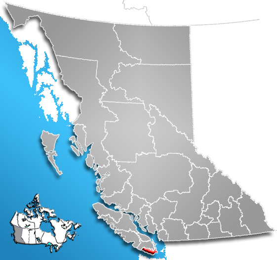 Location of Capital Regional District, British Columbia